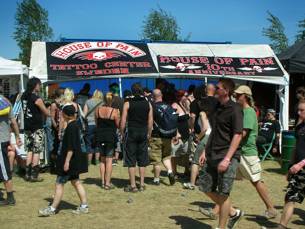 Swedish Hells Angels-controlled tattoo chain House of Pain, here represented with a tent at Sweden Rock Festival in Sölvesborg, Sweden. Note the Hells Angels font used in the logos.